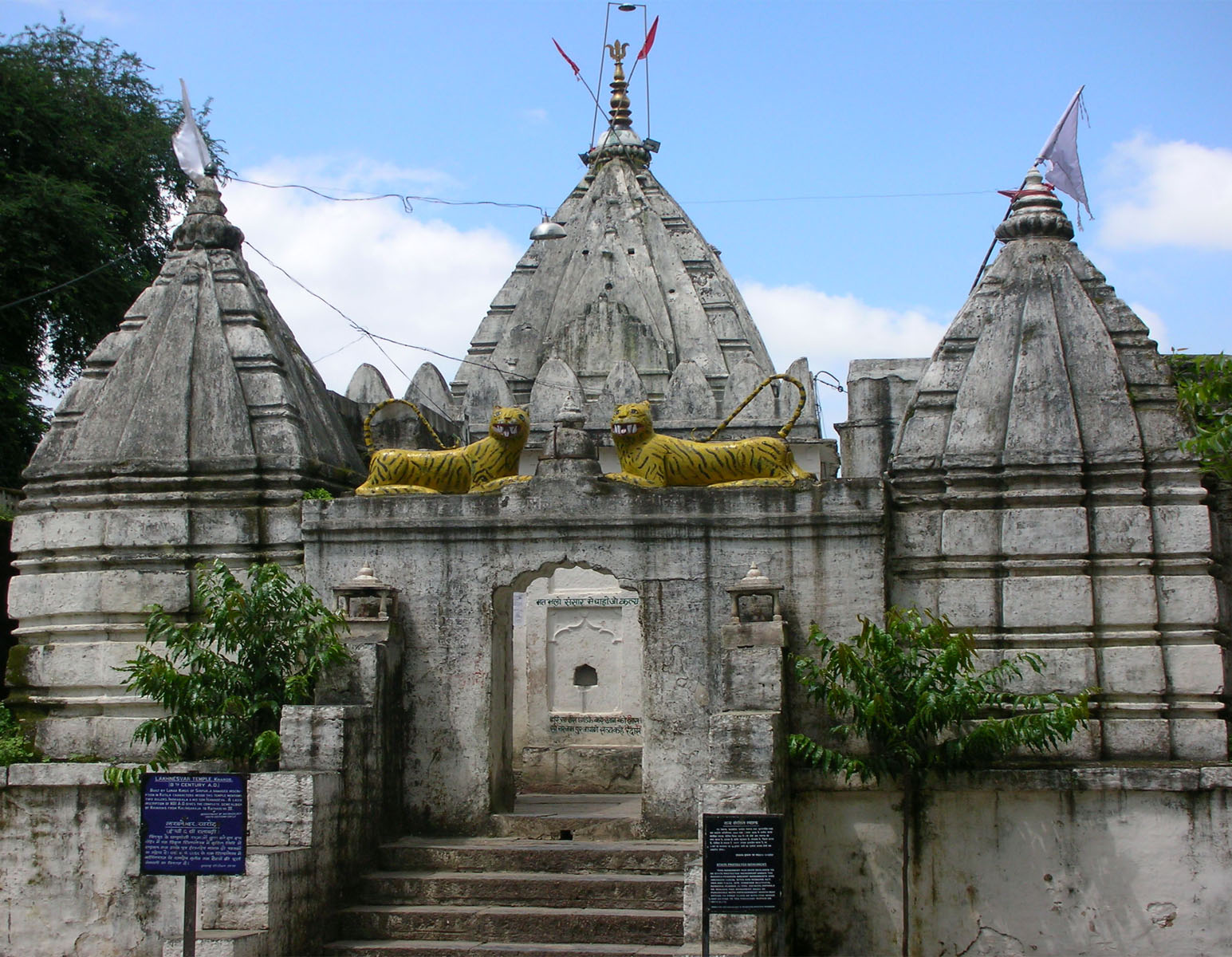 Laxmaneshwar Temple in Kharod, Chhatisgarh, India